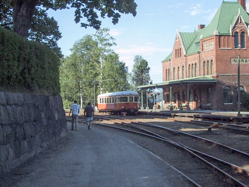 train station, Nora, Sweden.